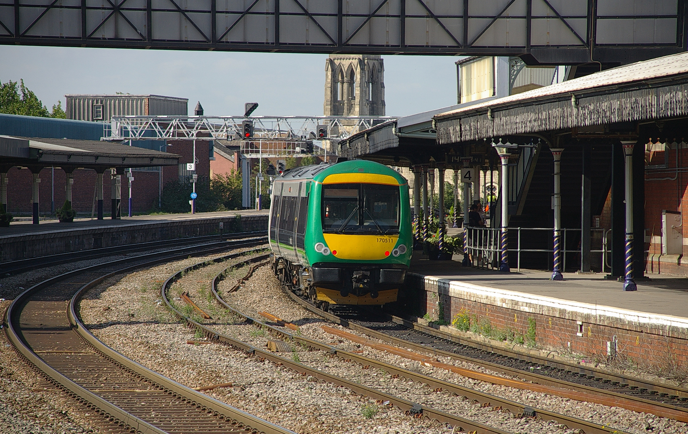 London Midland 170511 sits at Gloucester railway station with a service to Birmingham New Street.